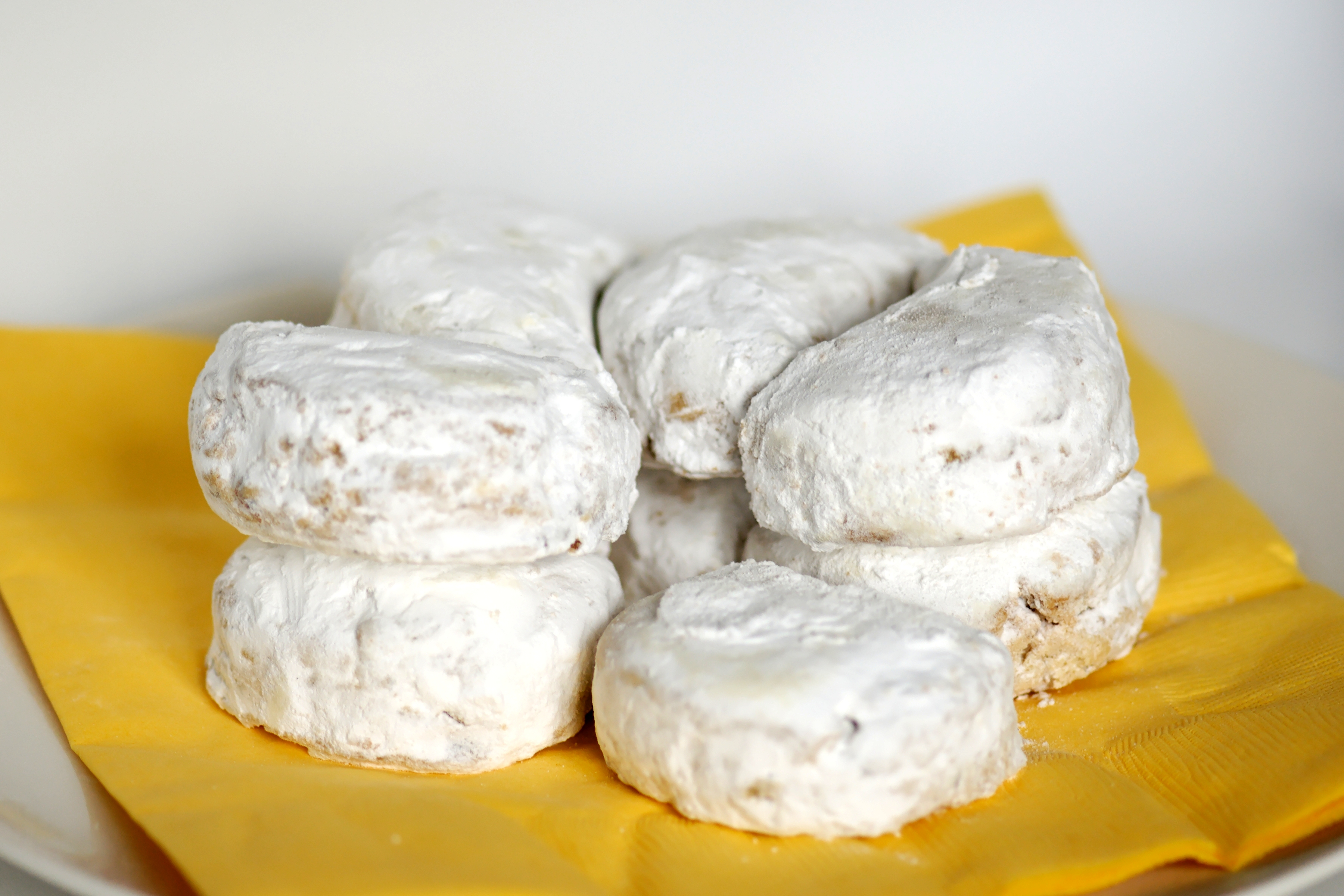 A platter of kourabiedes, a popular Greek pastry.